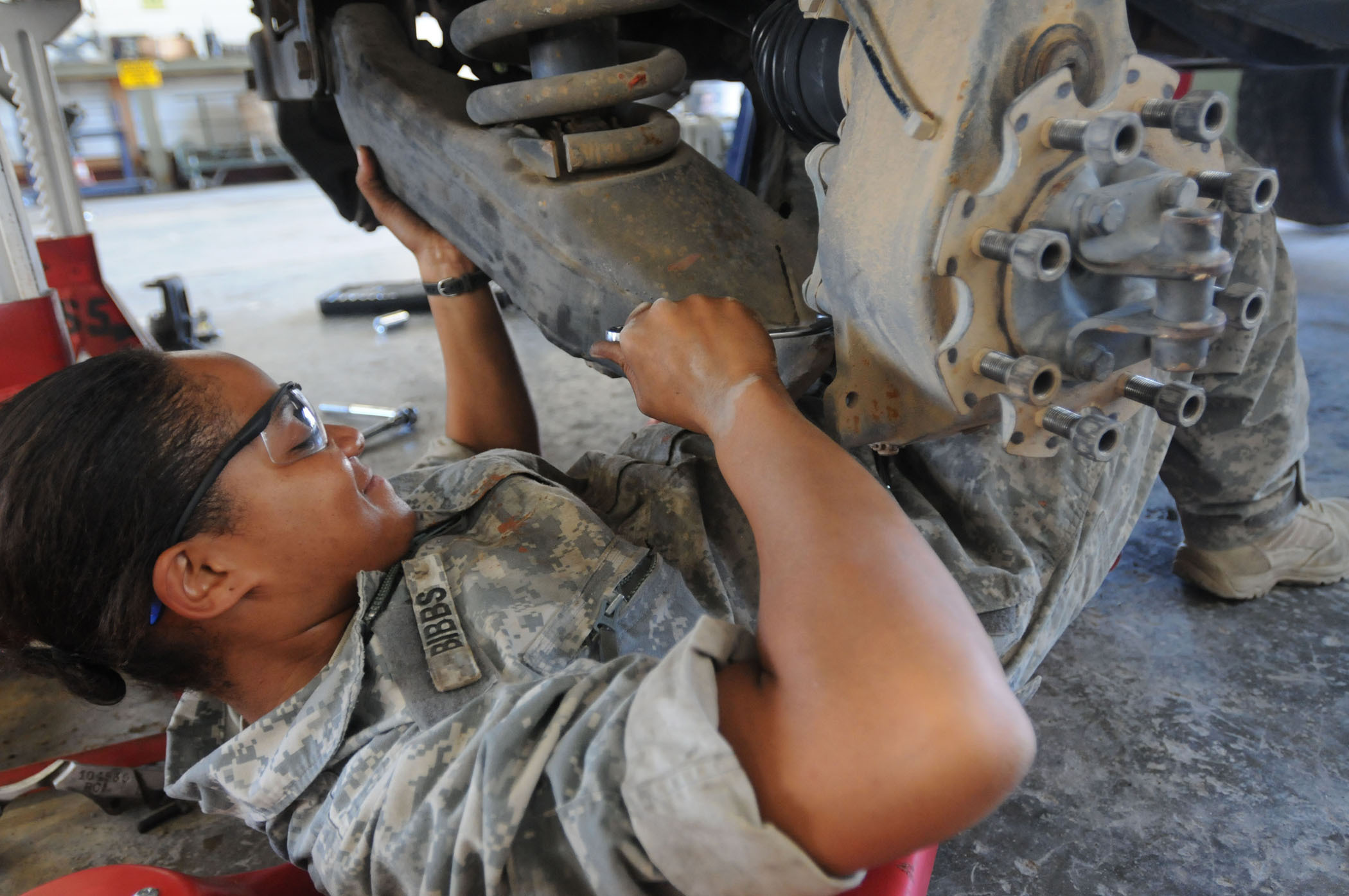 Army Sgt. Sierra Bibbs, a generator equipment repair non-commissioned officer with the 525th Military Police Battalion assigned to Joint Task Force Guantanamo, installs brakes on a Humvee at the battalion motor pool, May 10, 2010. The 525th MP Battalion provides a portion of JTF Guantanamo's guard force.